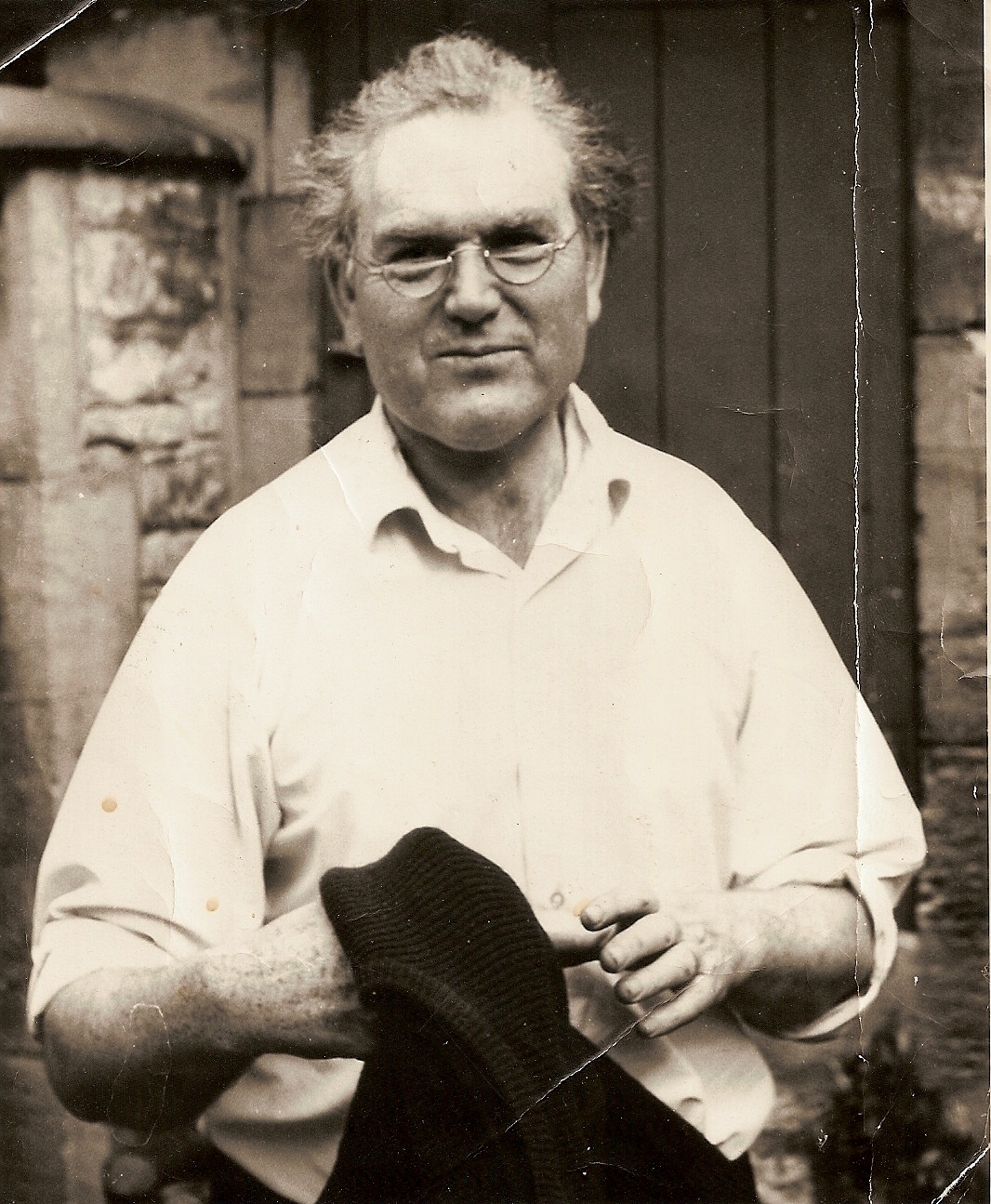 Portrait of John Bridgeman (Sculptor)